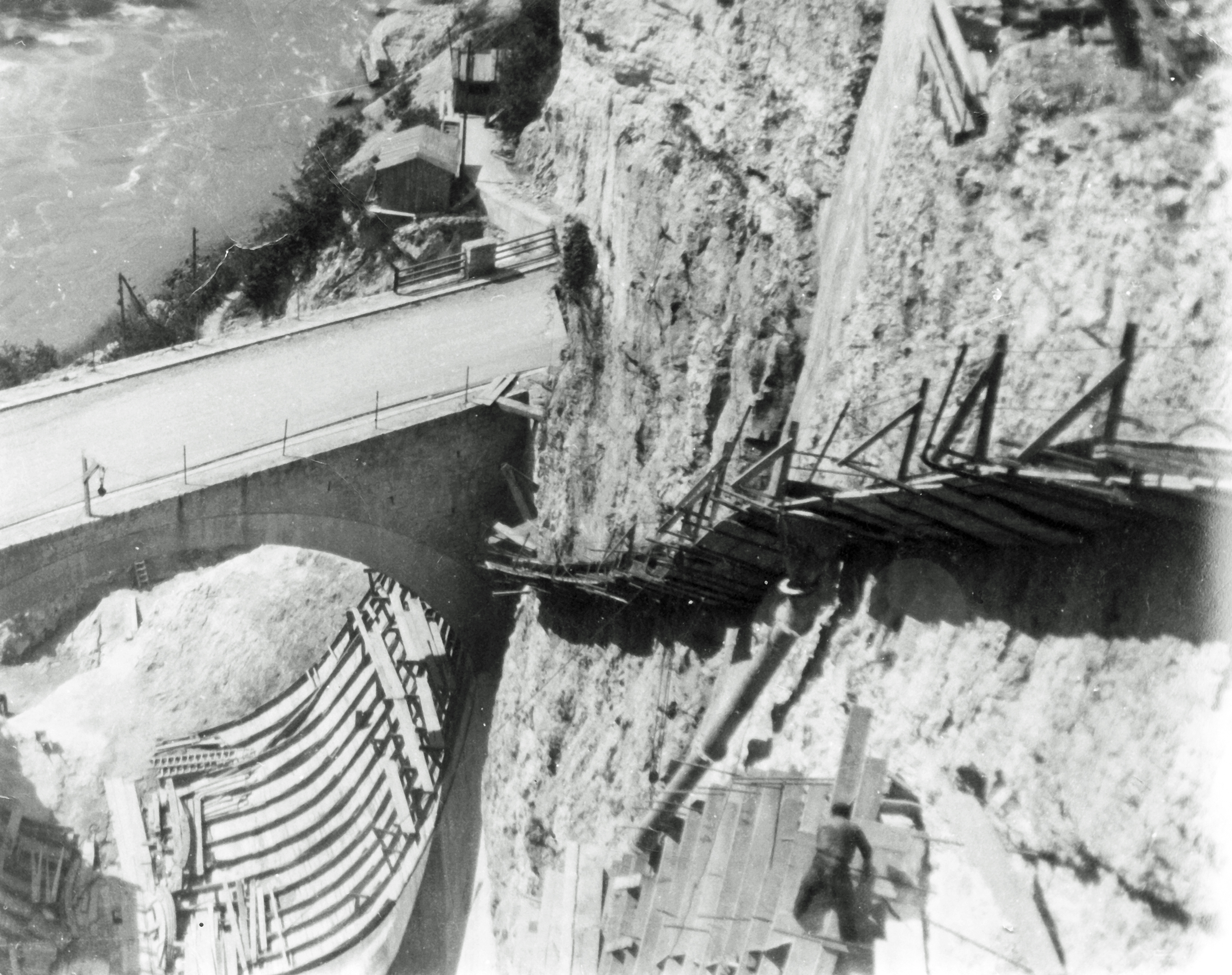 Wooden formwork for the ski jump ending the right bank surface spillway